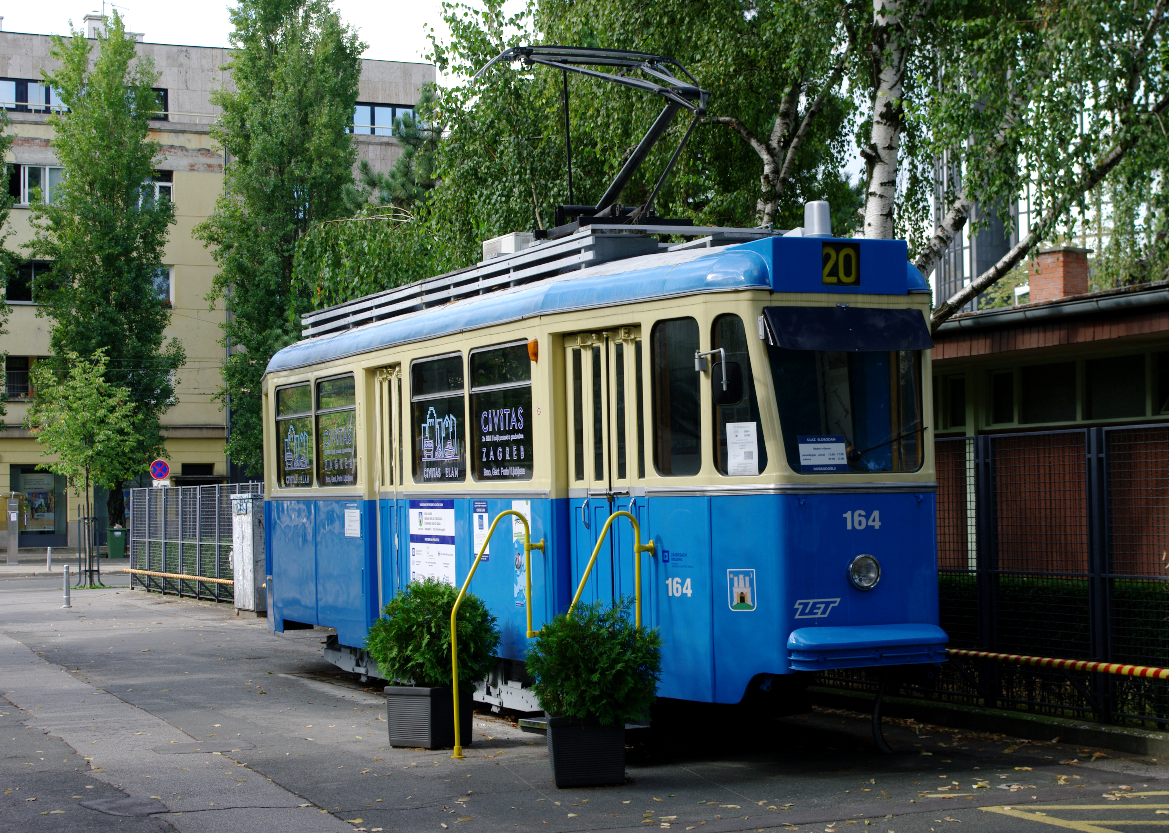 Tramcar TMK-101 near the Technical Museum of Zagreb